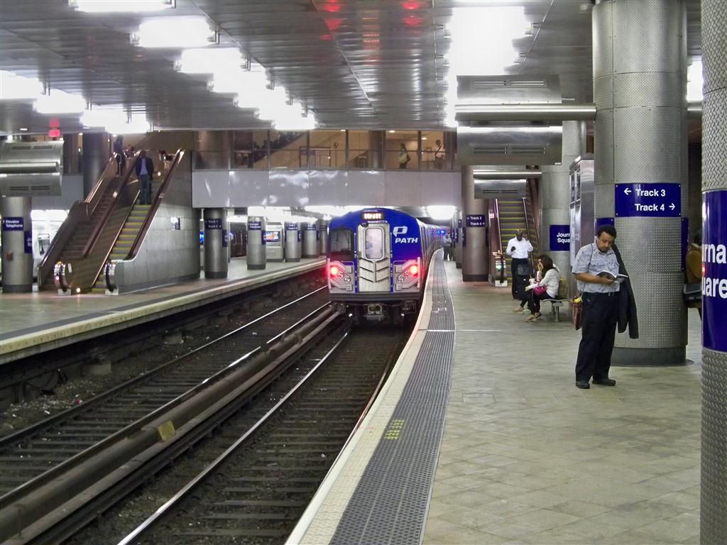 PATH PA-5 leaving Journal Square Station